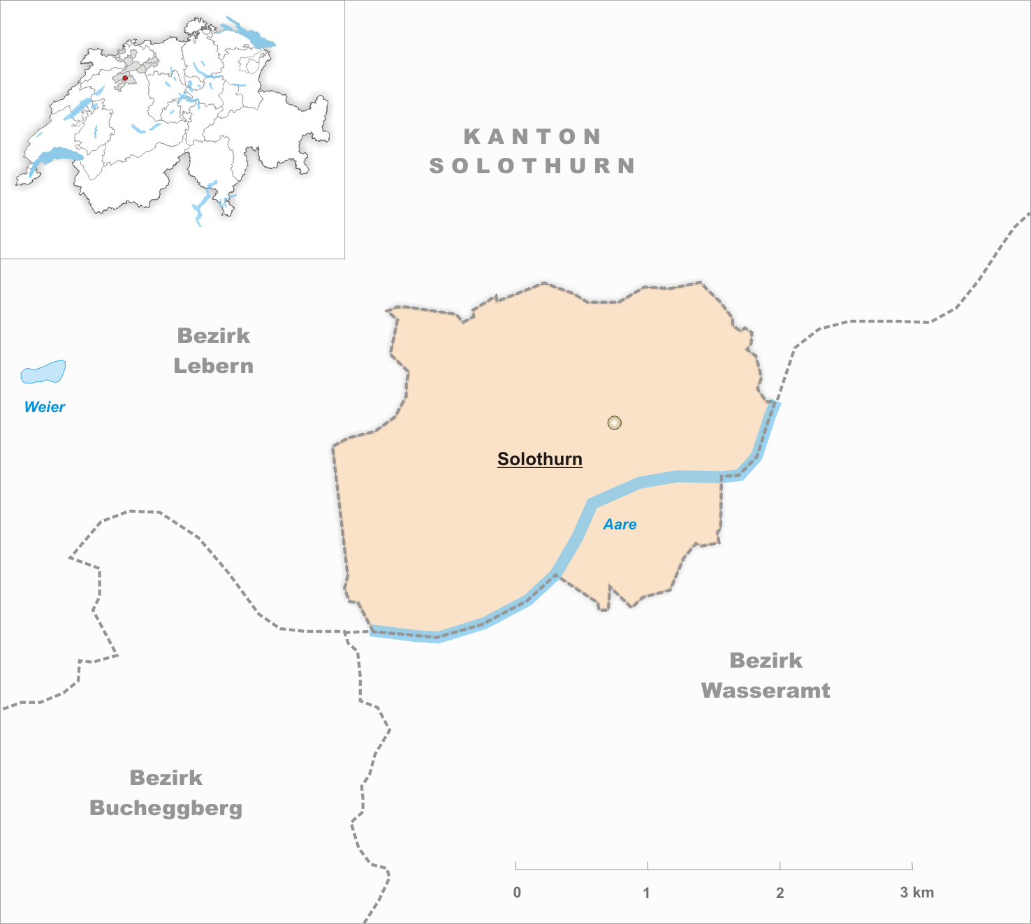 Municipality Solothurn